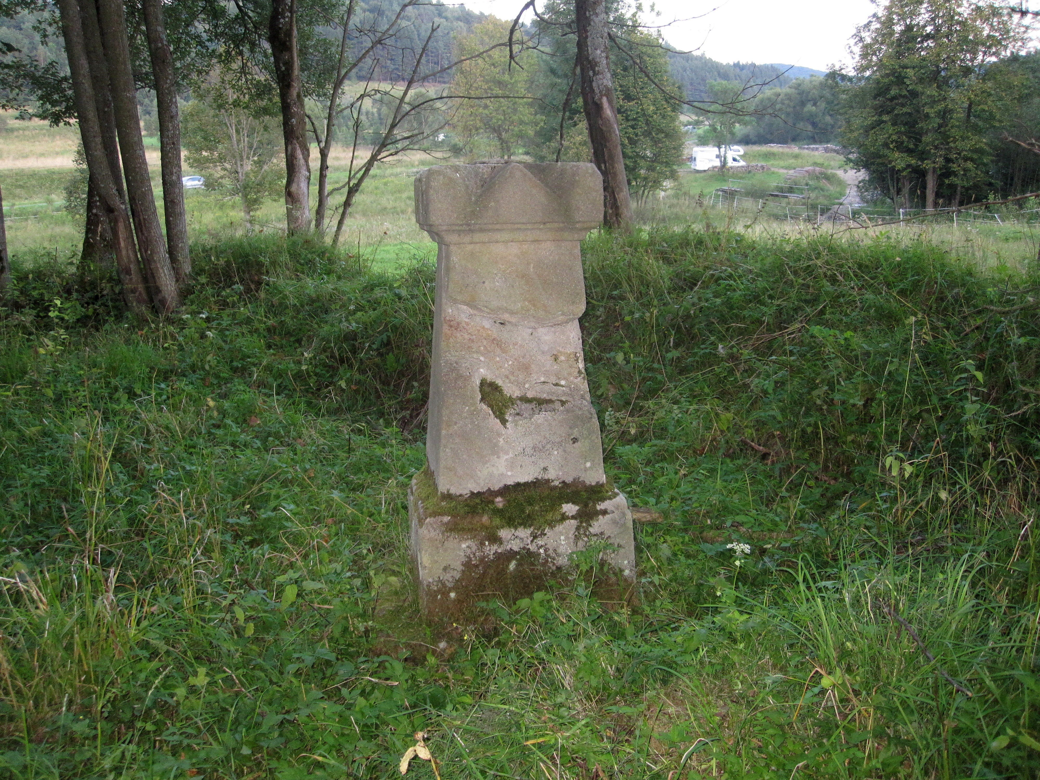 Place where was Orthodox Church